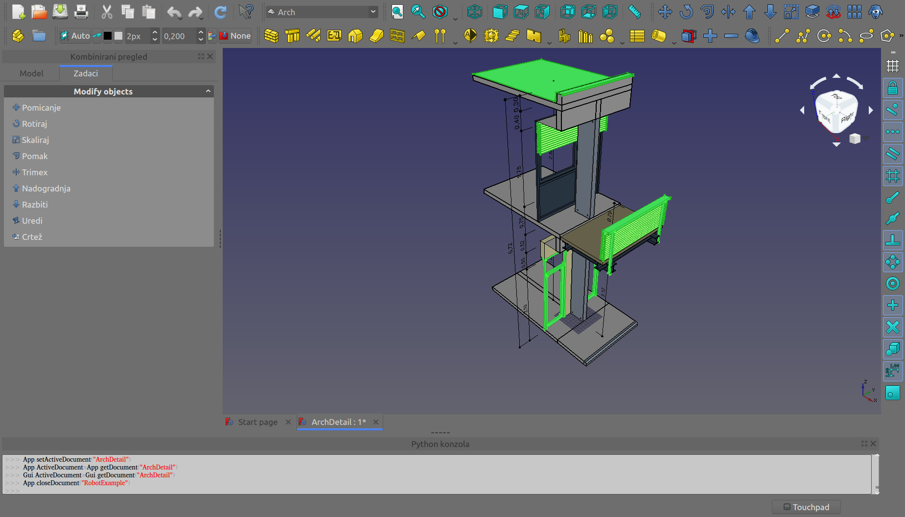 FreeCAD wiki Arch